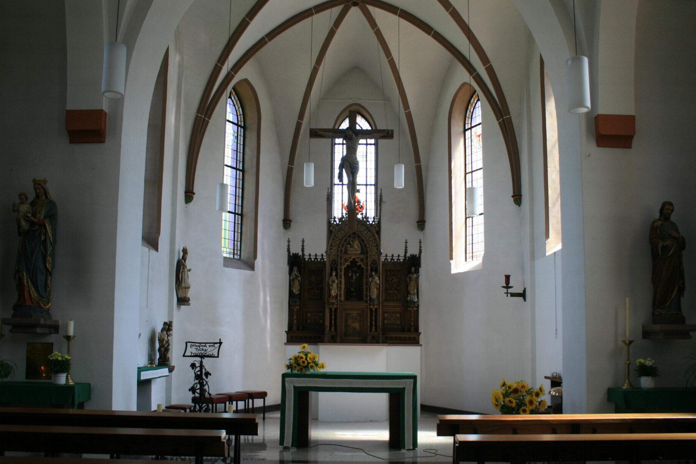 Cultural heritage monument No. 061 in Nideggen